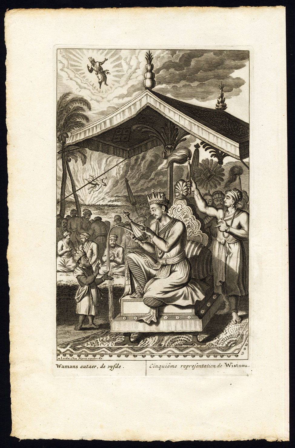 The ten avatars of Vishnu, according to Pieter van der Aa, in 'La Galerie Agreable du Monde (...).Tome premier des Indes Orientales.', published by P. van der Aa, Leyden, c. 1725 (*the title page*): Avatars *ONE*; *TWO* (shown above); *THREE*; *FOUR*: *FIVE*; *SIX*; *SEVEN*; *EIGHT*; *NINE*; *TEN*; also, from the same source: "Comment les Indiens portent aux fetes les Idoles Elwara et Wistnou"* "Fiancailles parmi les Benjanois"* "Formes des Saints, ou Vagabonds Benjanois"* "Holy, Fete celebree par les Benjanes et Rasboutes masquez"* "Idoles, Mathematiciens, Philosophes, etc., des Indes"* "Les Apostats Benjanois font desreches inities au Paganisme"* "Les Penitens Benjanois se lavent dans la Riviere de Ganges"* "L'Idole Ganga suivie d'un Sourdaes, pendant avec un croc attache a son corps"* "Maniere de se marier parmi les Benjanois"* "Pagoda, ou Temple de l'Idole Wistnou, represente sous la figure d'un Pilier"* "Temple des Idoles Benjanois en dedans"*